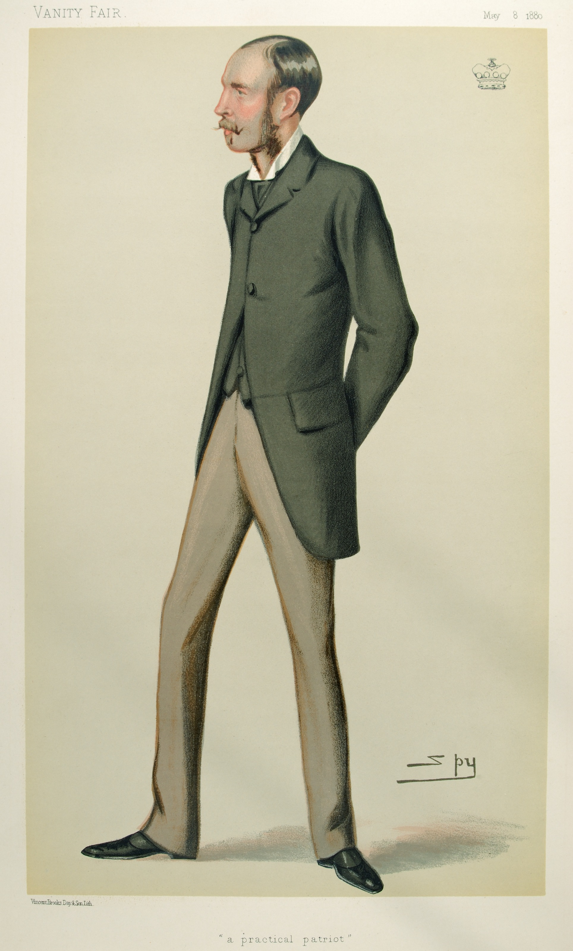 Statesmen No.325: Caricature of Lord Ardilaun. Caption reads: "A practical patriot."